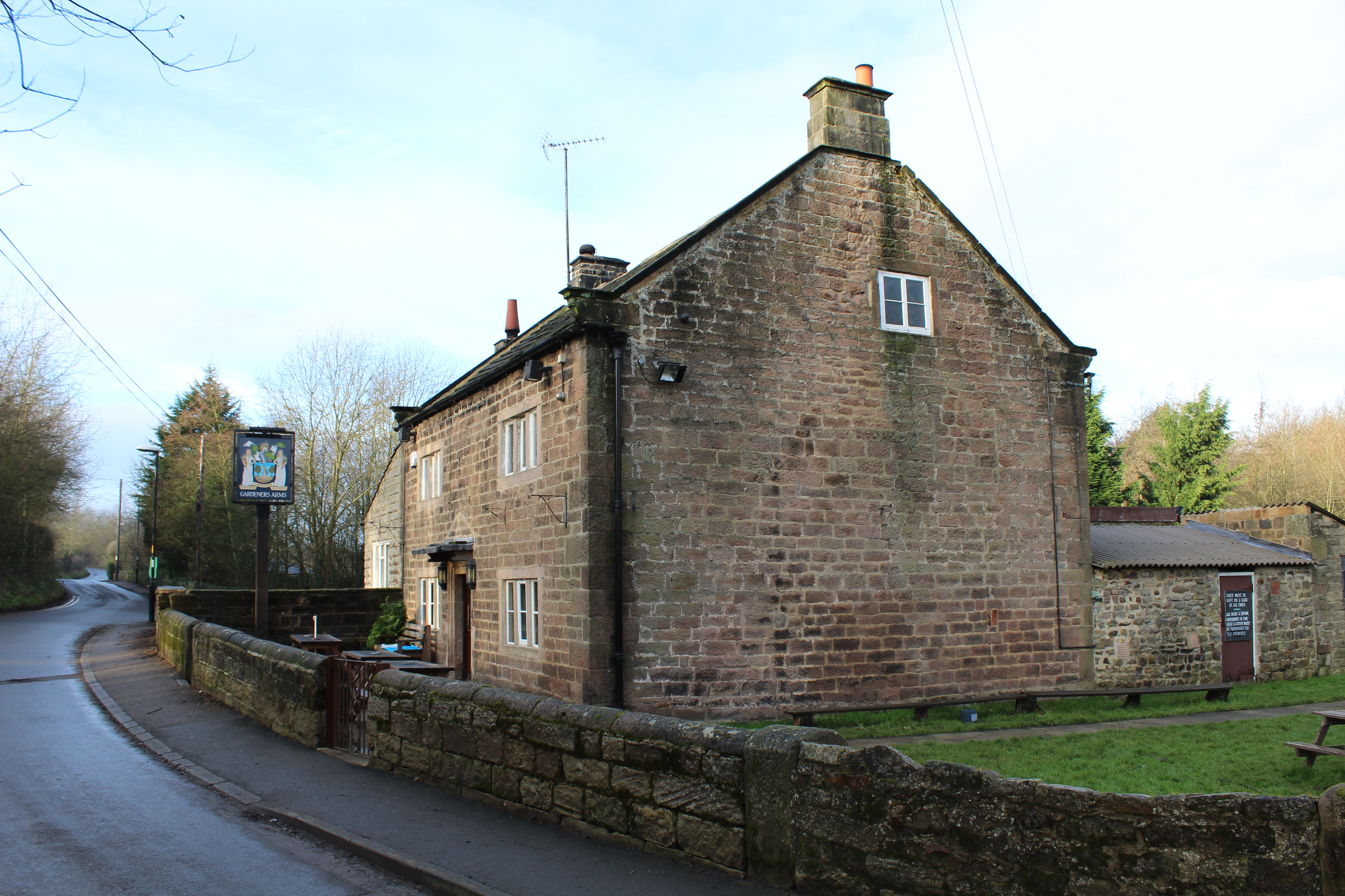 Gardeners Arms